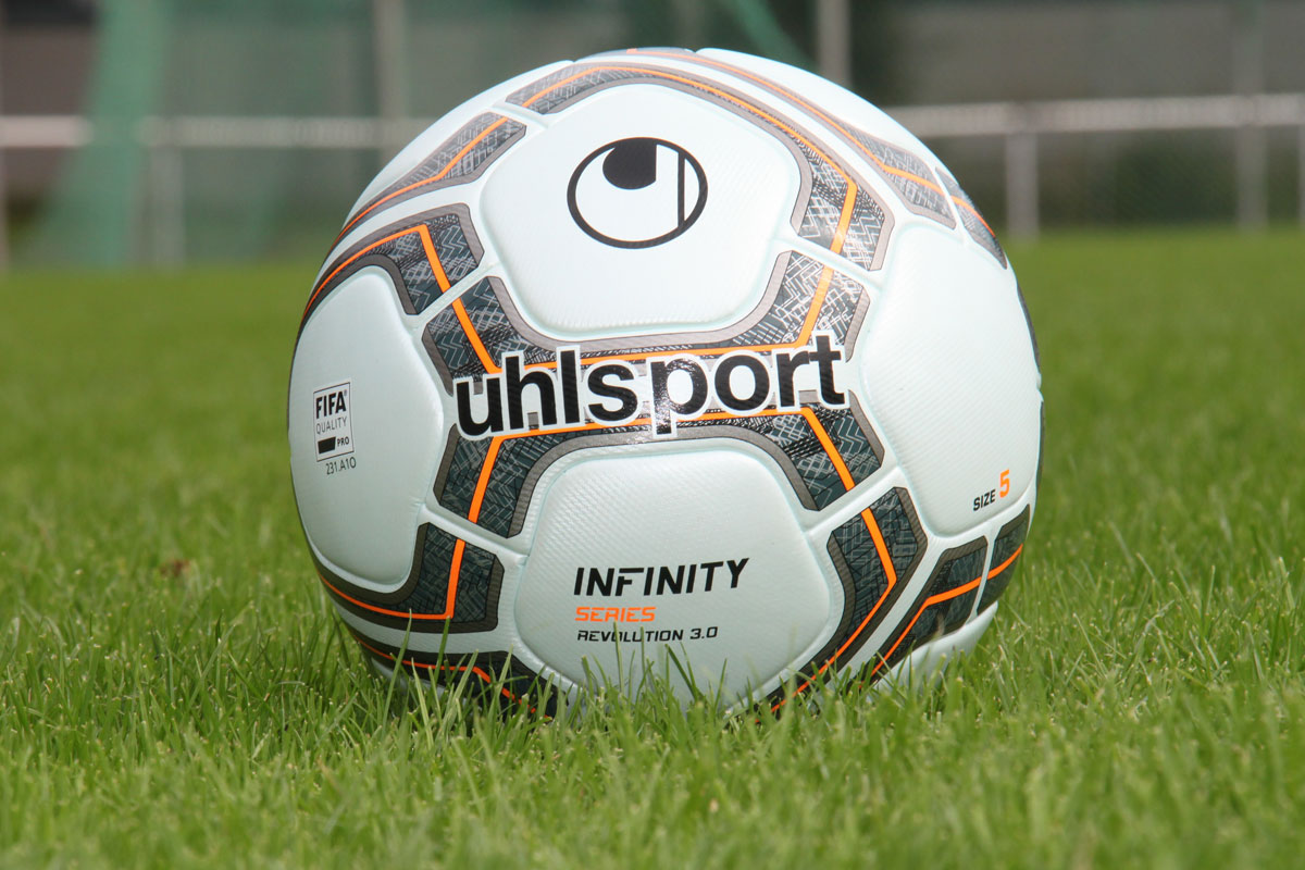 uhlsport football INFINITY REVOLUTION 3.0 lying on grass